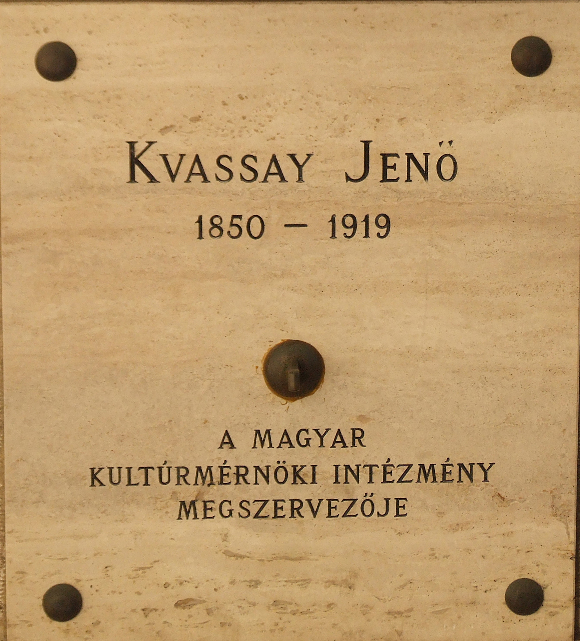 Jenő Kvassay commemorative plaque in Budapest District V, Kossuth Lajos Square No 11.